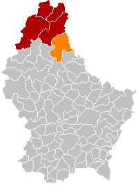 Parc Hosingen municipality location